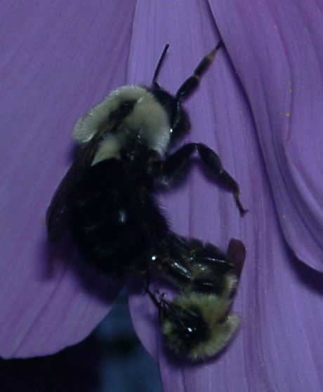 A Bombus impatiens drone fertilizes a new queen. September 6, 2006, southern Ontario, Canada, photographer Mark Bellis.